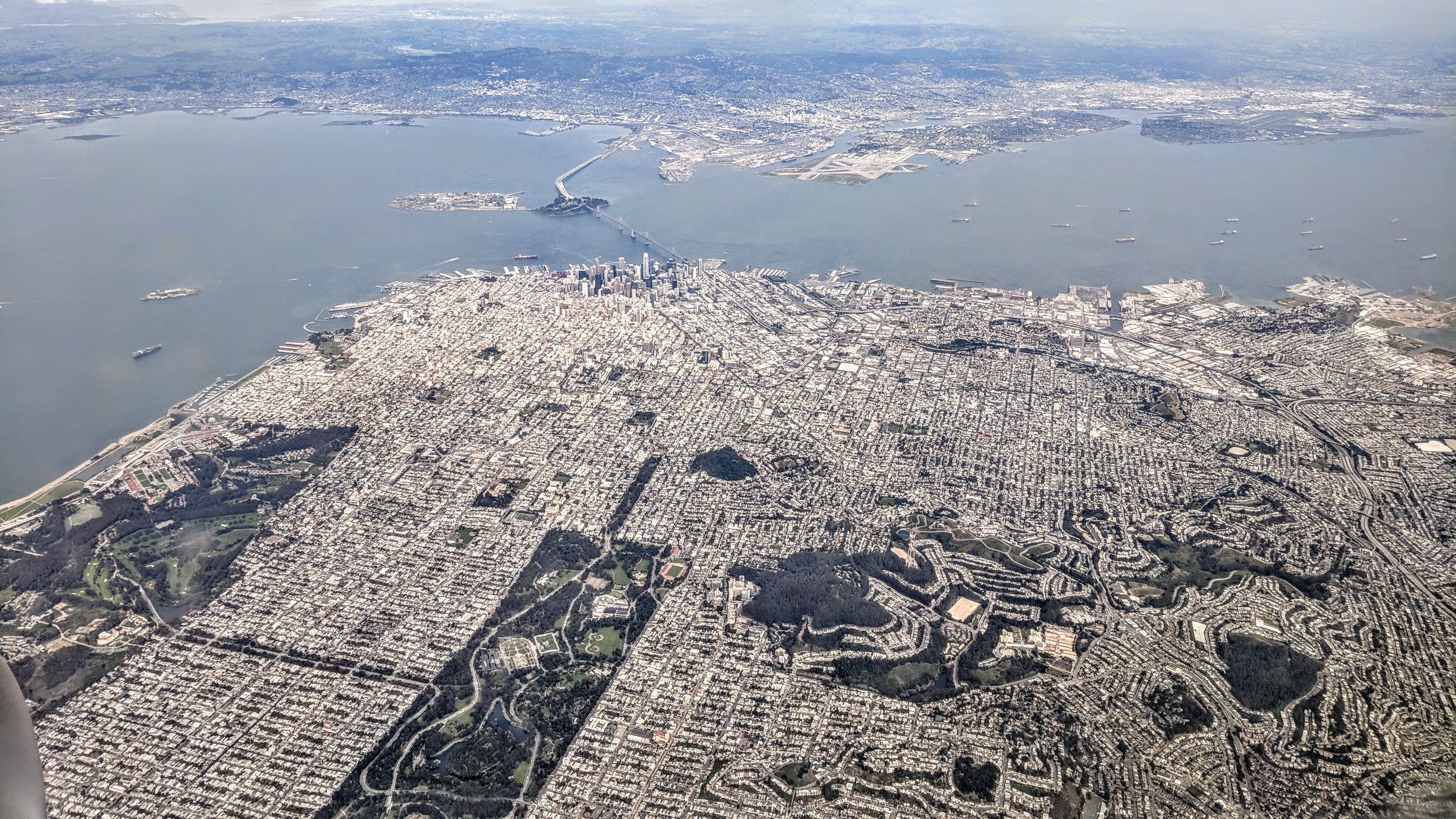 Aerial view of San Francisco